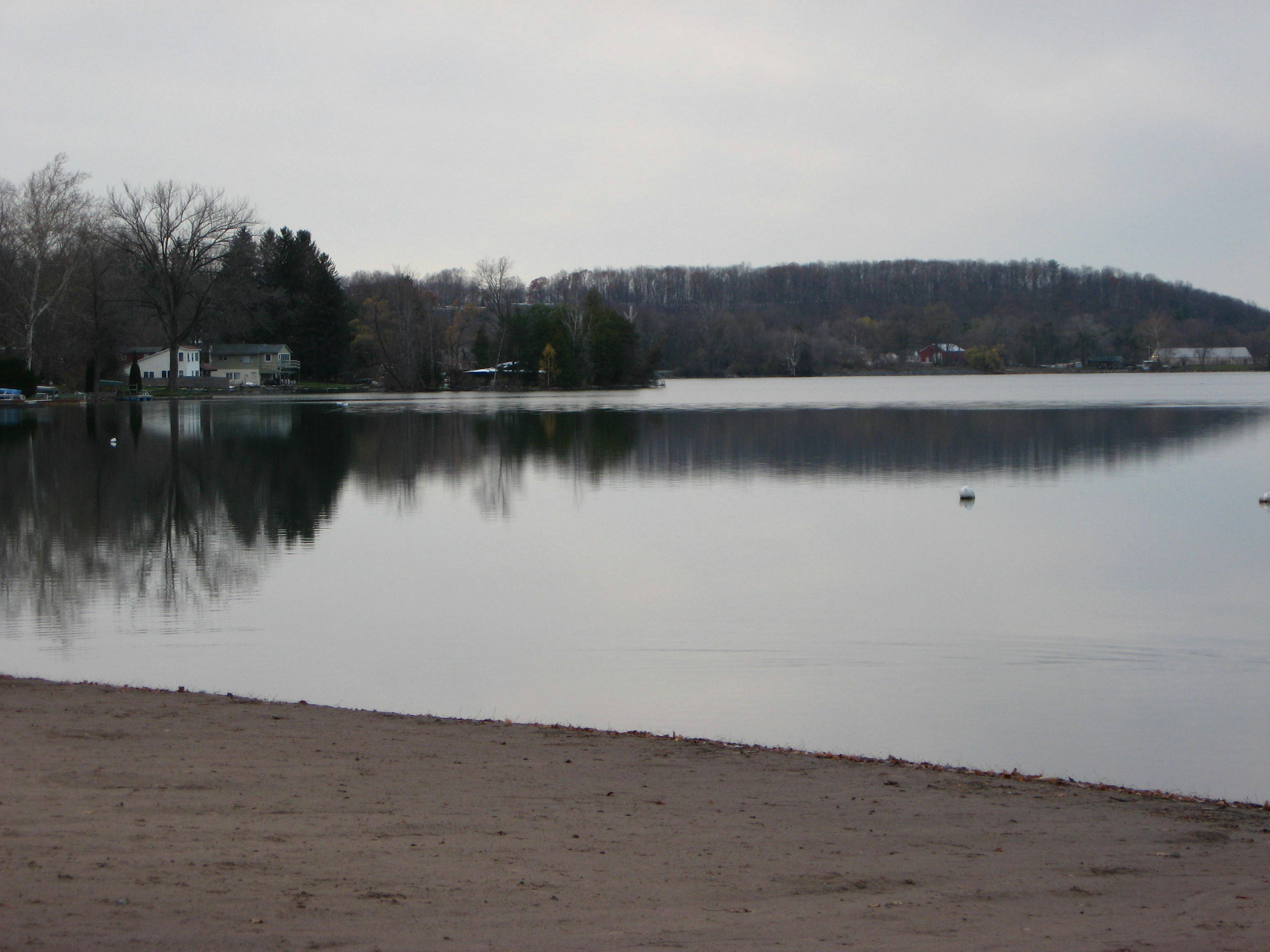 Jamesville Reservoir, near Jamesville, New York